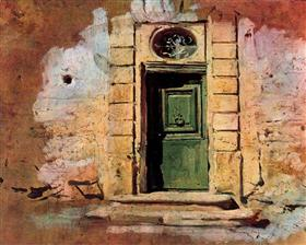 Work by Giovanni Boldini